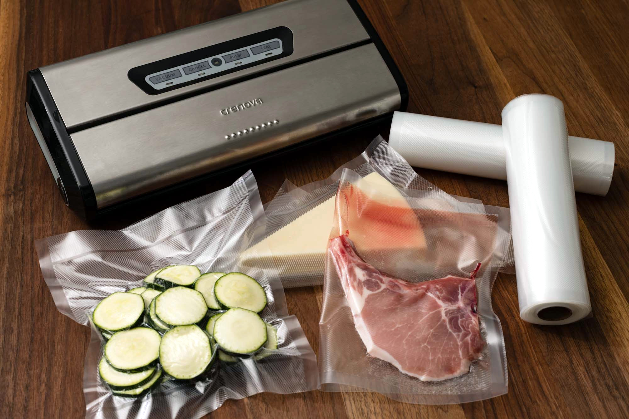 Vacuum sealer (Crenova VS100S) with food sealed on wooden table and rolls of plastic for sealing.